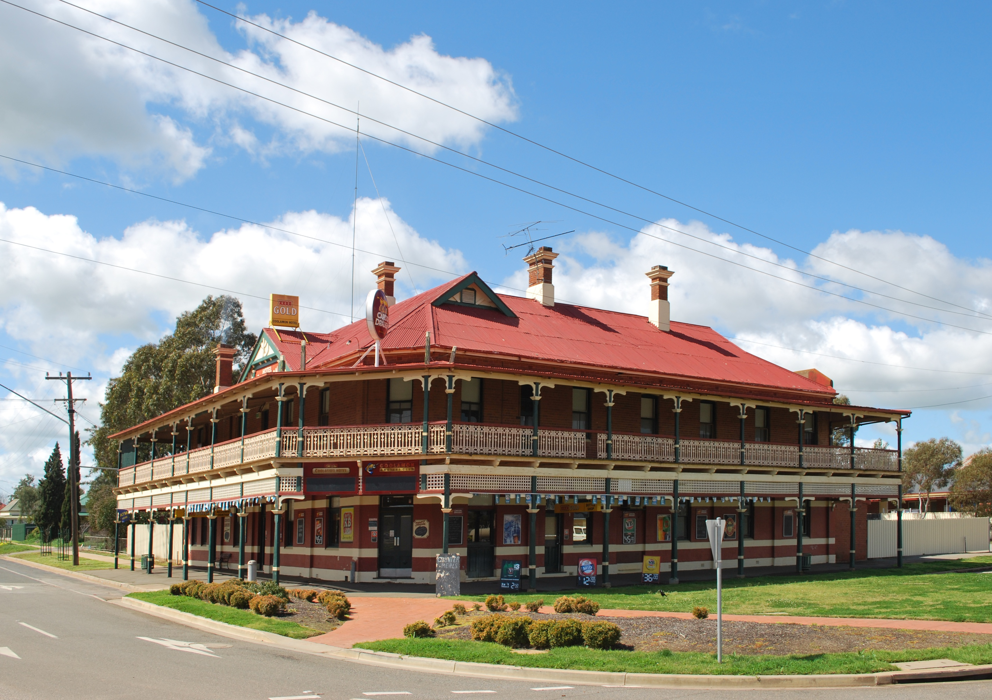 Hotel Coolamon at Coolamon, New South Wales